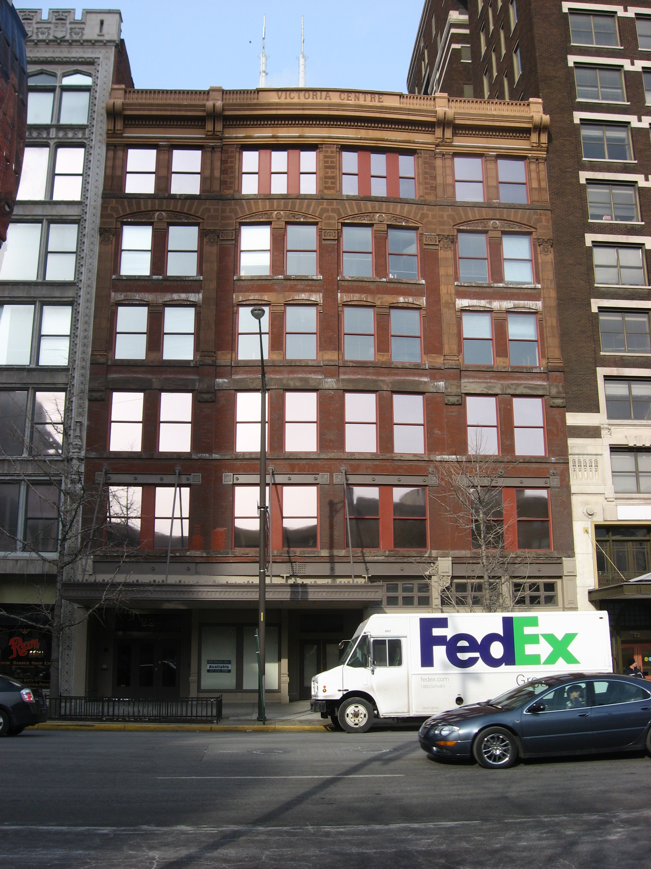 Front of the Lombard Building, located at 22-28 E. Washington Street in downtown Indianapolis, Indiana, United States. Built in 1893, it is listed on the National Register of Historic Places, and it is a part of the Register-listed Washington Street-Monument Circle Historic District.